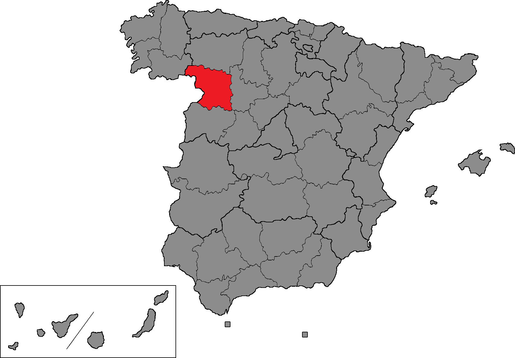 Spanish Congress of Deputies district of Zamora.